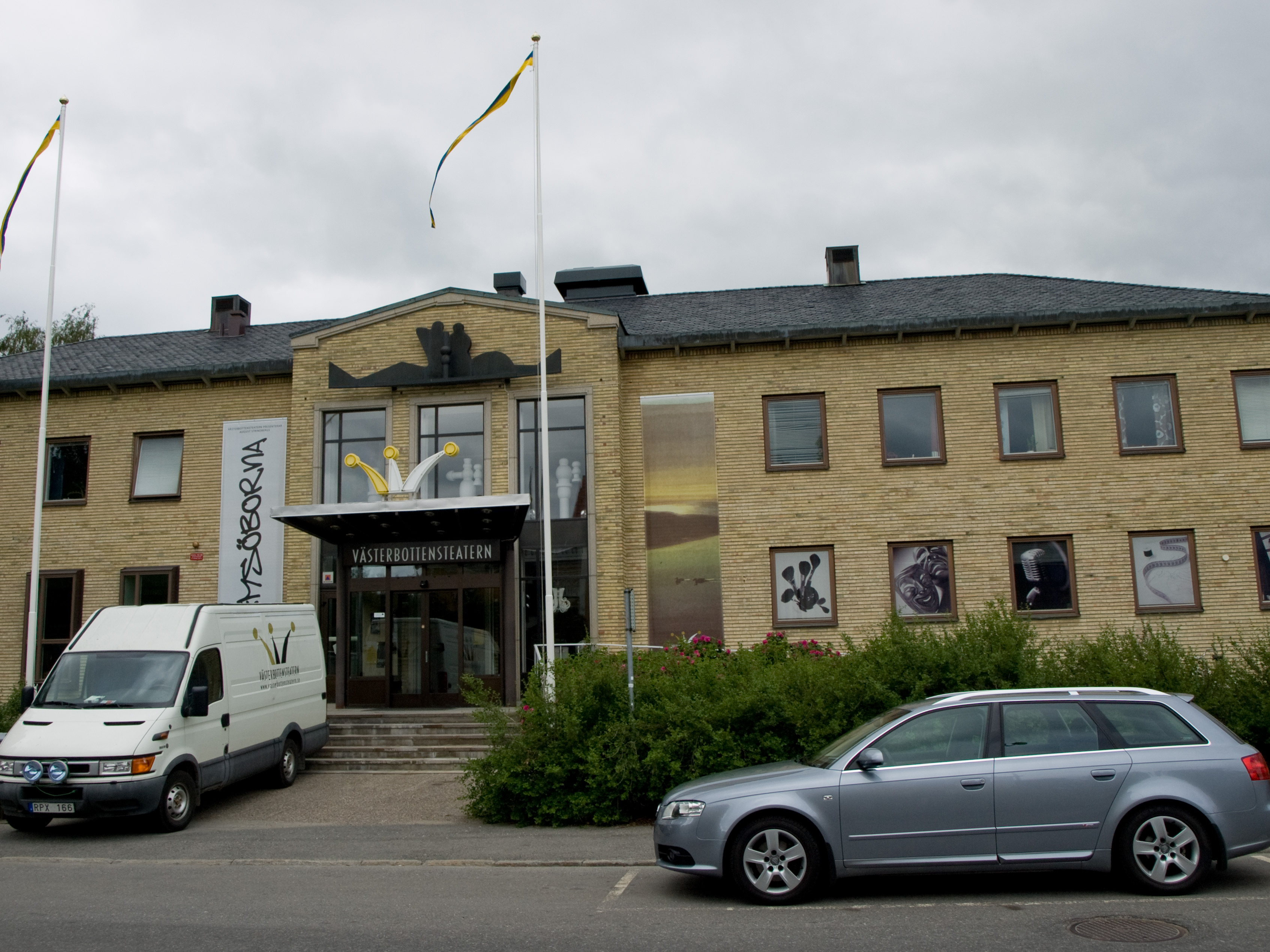 Västerbottensteatern in Skellefteå, Sweden.